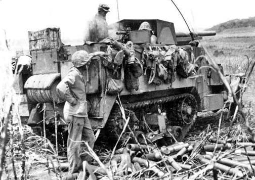 M3 75mm Gun Motor Carriage, Special Weapons Company, 2nd Marine Division, Tinian, 30 July 1944.